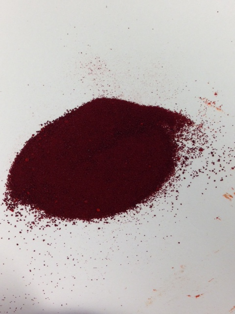 Sample of Fe(acac)3 poured on to white paper